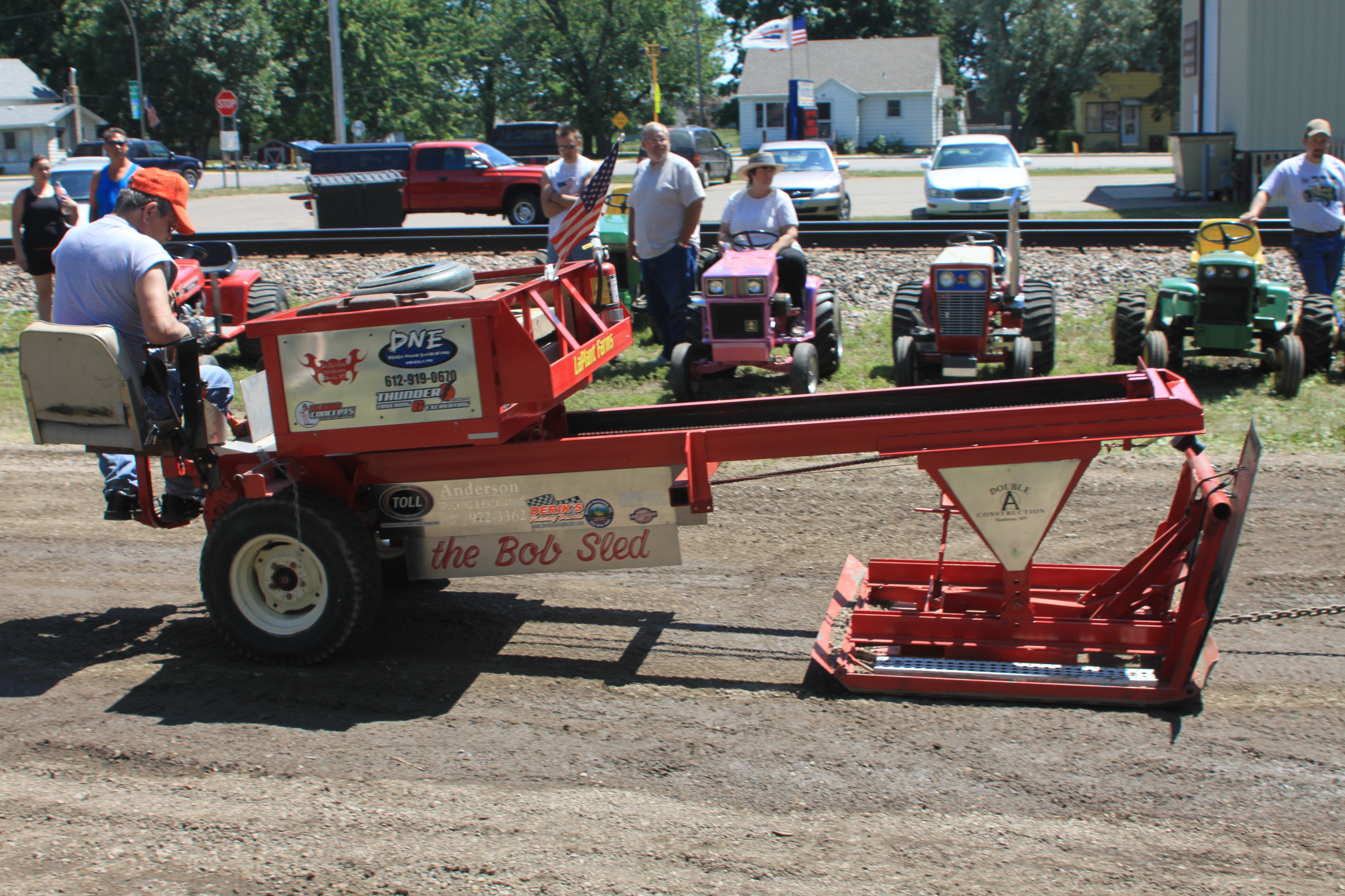 Tractor pull weight sled sized for garden tractor class pulls.